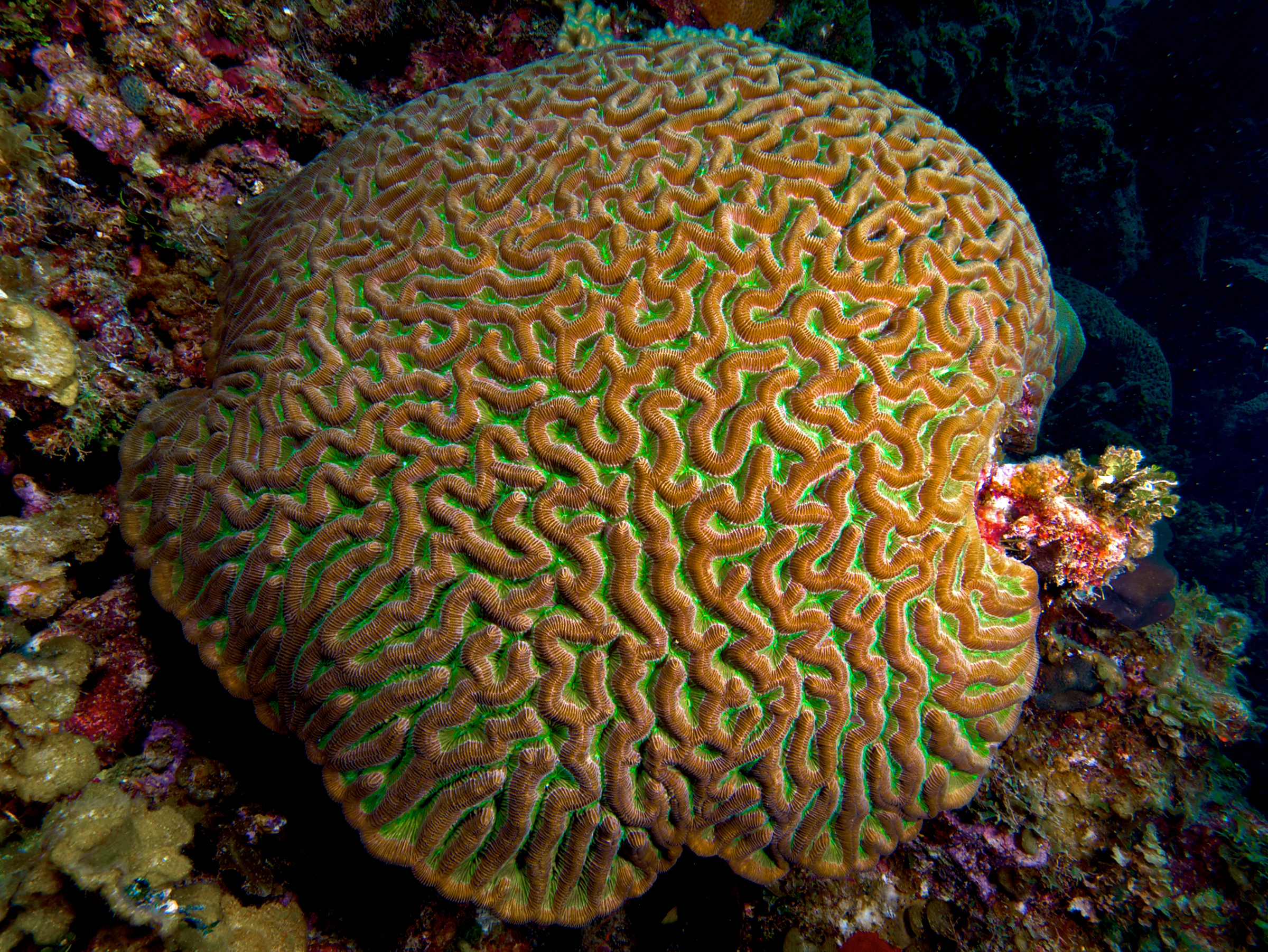 Colpophyllia natans (Boulder Brain Coral) entire colony